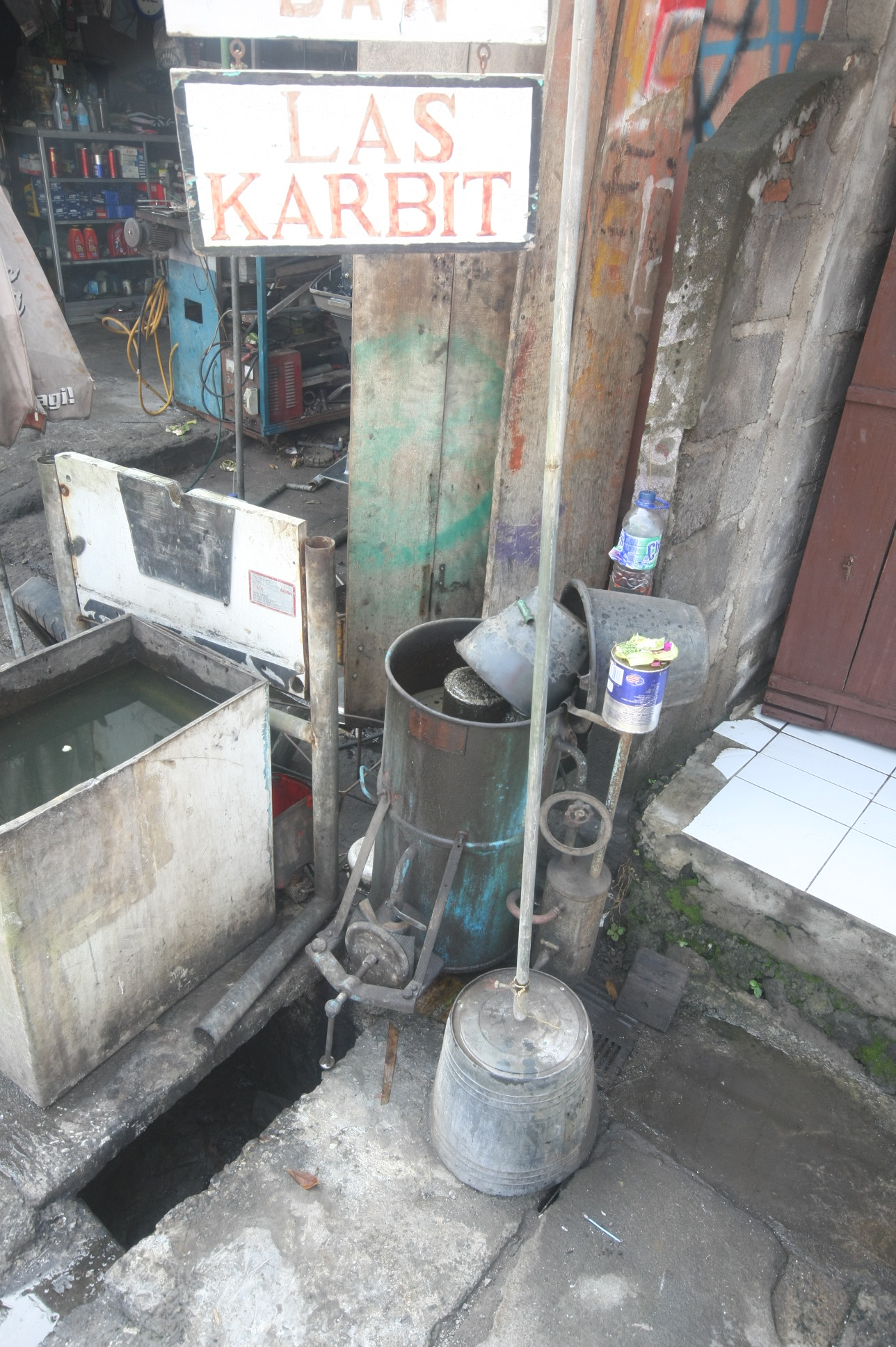 Acetylene generator as used in Padangbai, Bali.